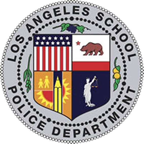 LASPD